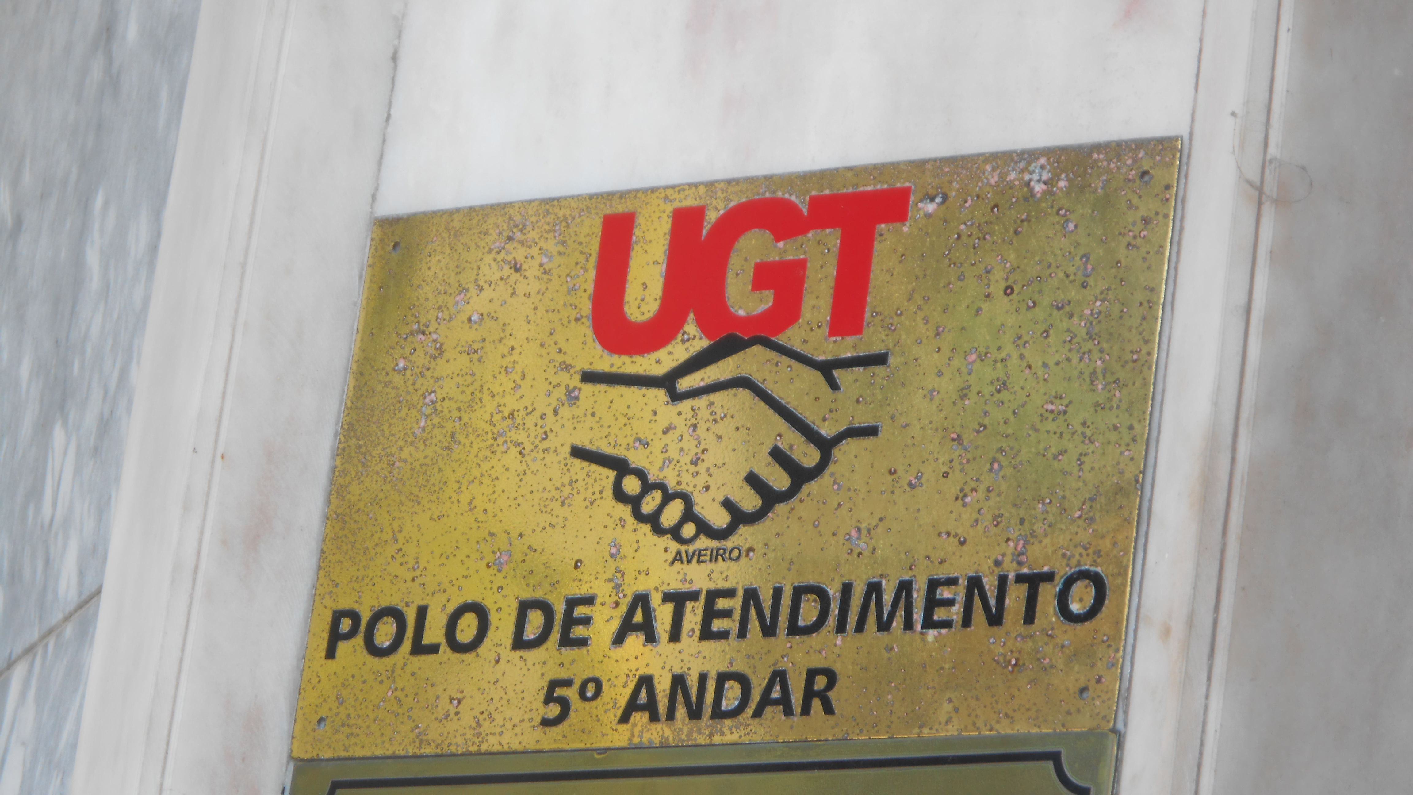 Sign at the entrance to the UGT trade union office in Aveiro